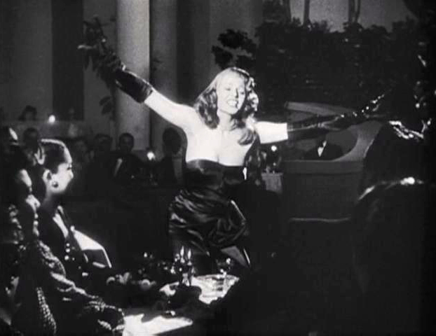 Screenshot of Rita Hayworth as Gilda performing "Put The Blame On Mame" in the trailer for the film Gilda.